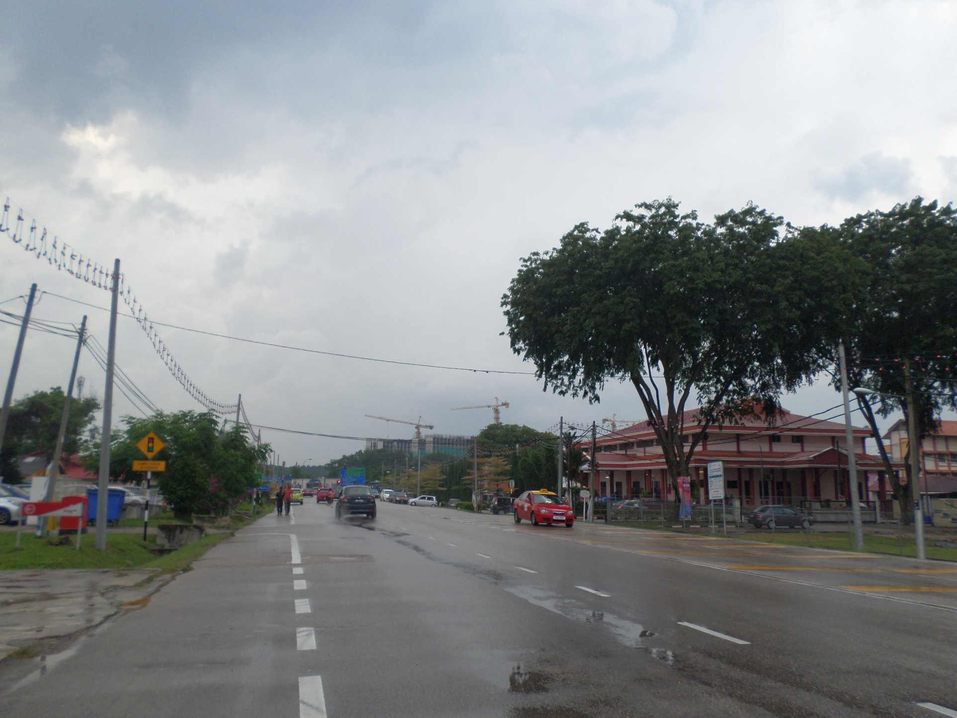 Gelang Patah, Johor Bahru, Johor, MalaysiaBahasa Melayu: Gelang Patah, Johor Bahru, Johor, Malaysia